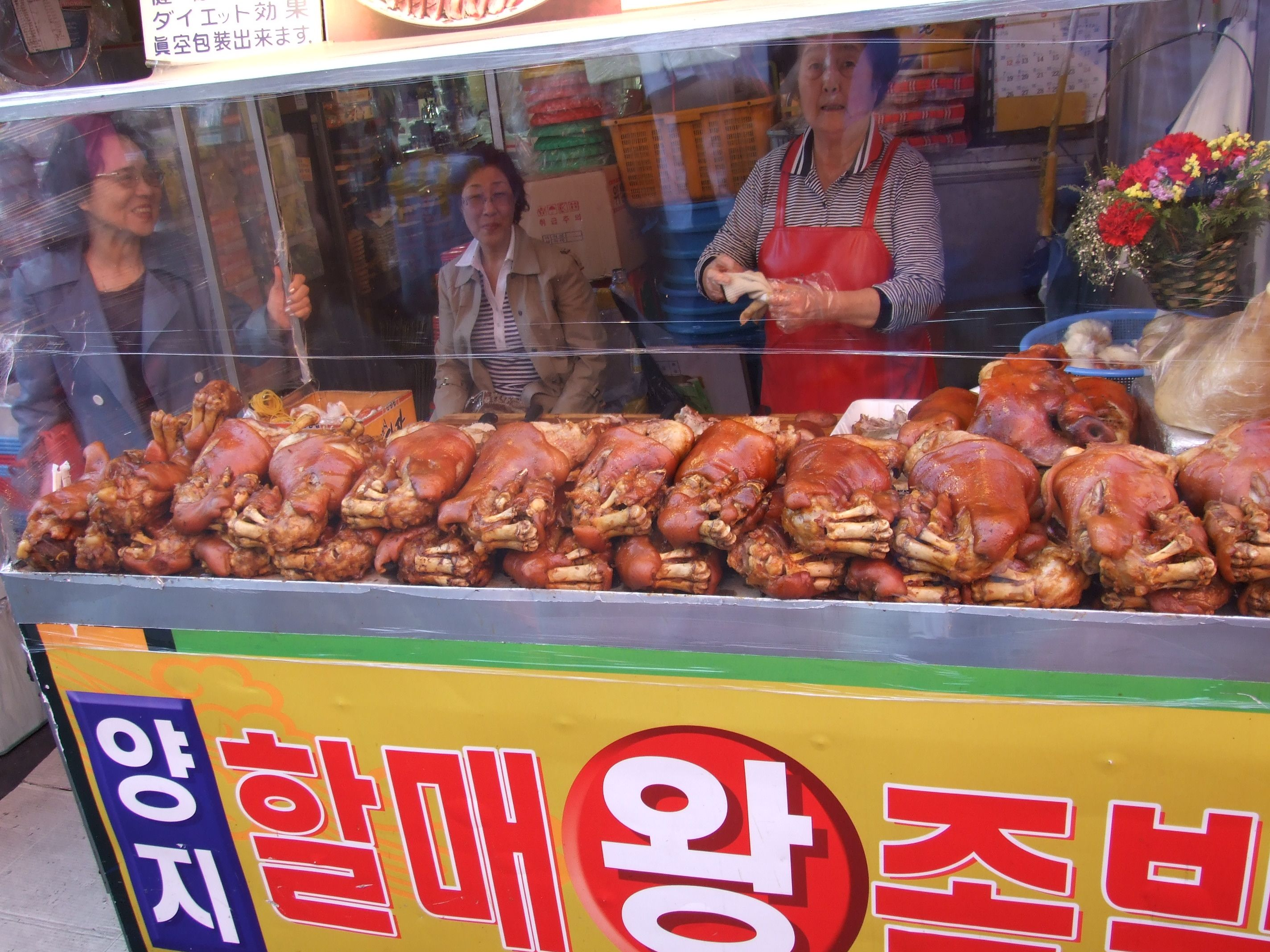 jokbal being sold at Namdaemun Market in Seoul. The Korean writing says 'grandma's king jokbal'.